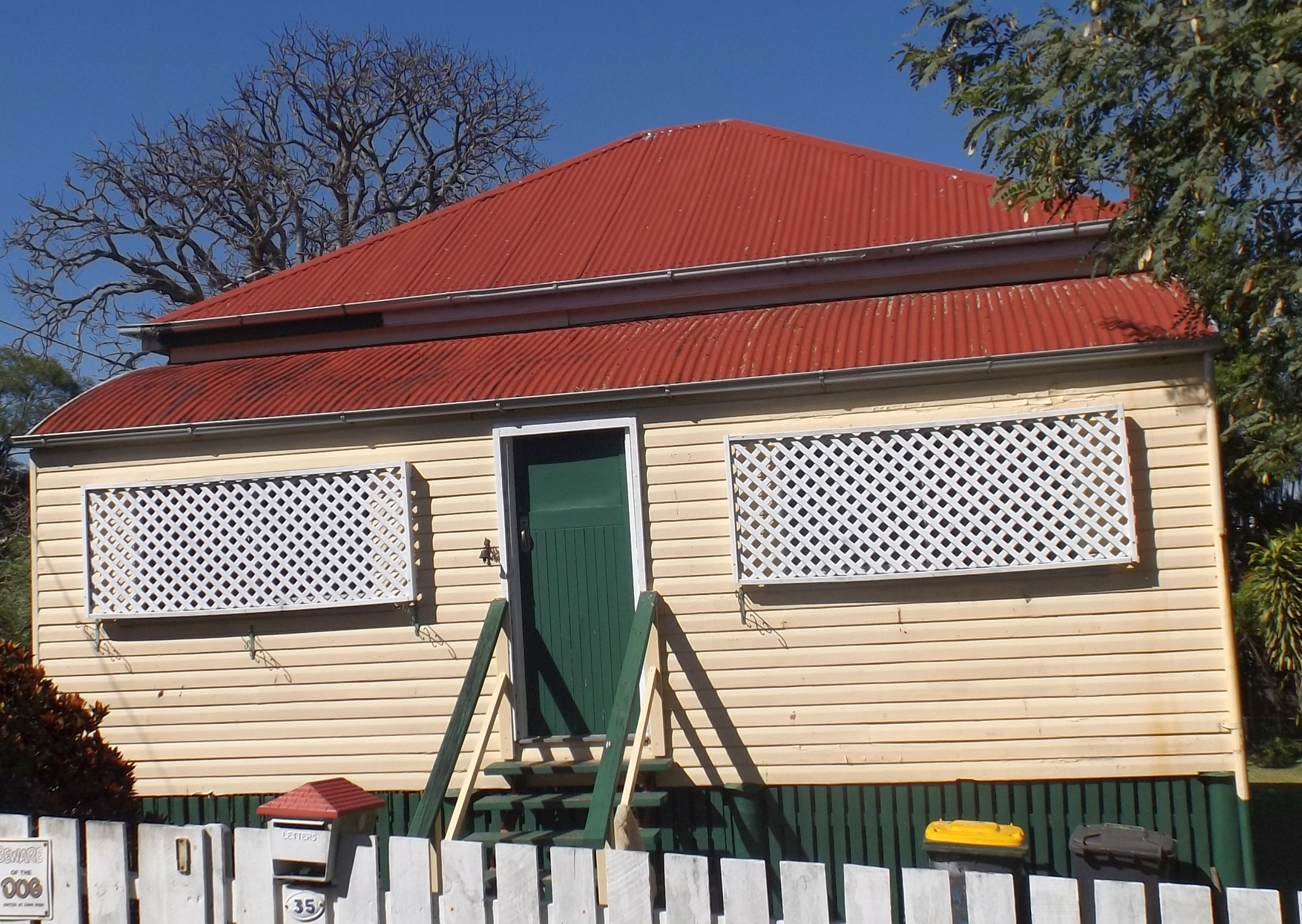 Photo of the front of Workers' Dwelling No.1 at Nundah, Brisbane, Queensland, Australia.